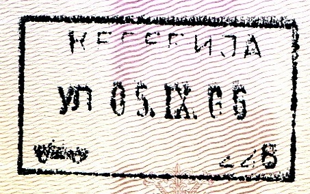 Passport stamp from Kelebija, 1987. Border crossing into Hungary, at Tompa.